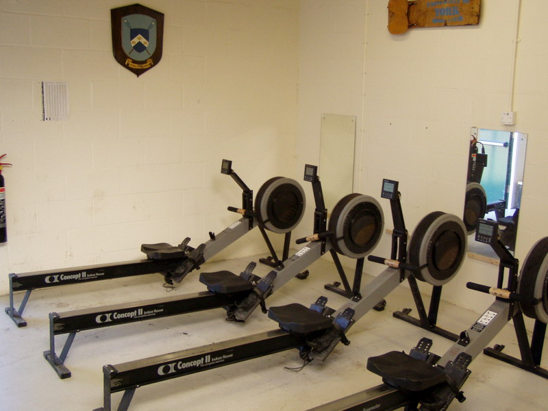 A row of Concept2 Indoor rowers. Photo taken by Johnteslade and released into public domain.